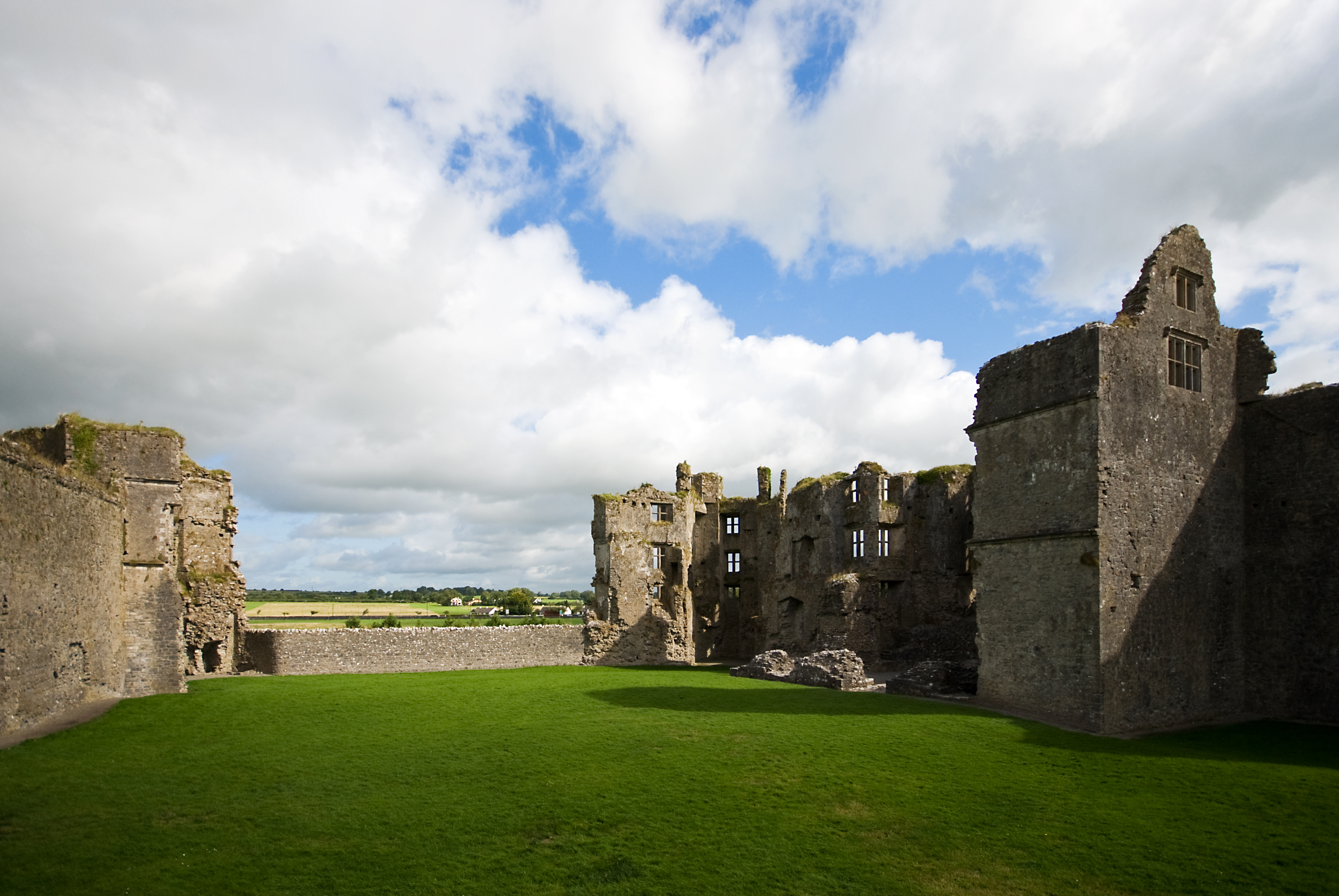 Ireland 2009, Roscommon Castle ruins